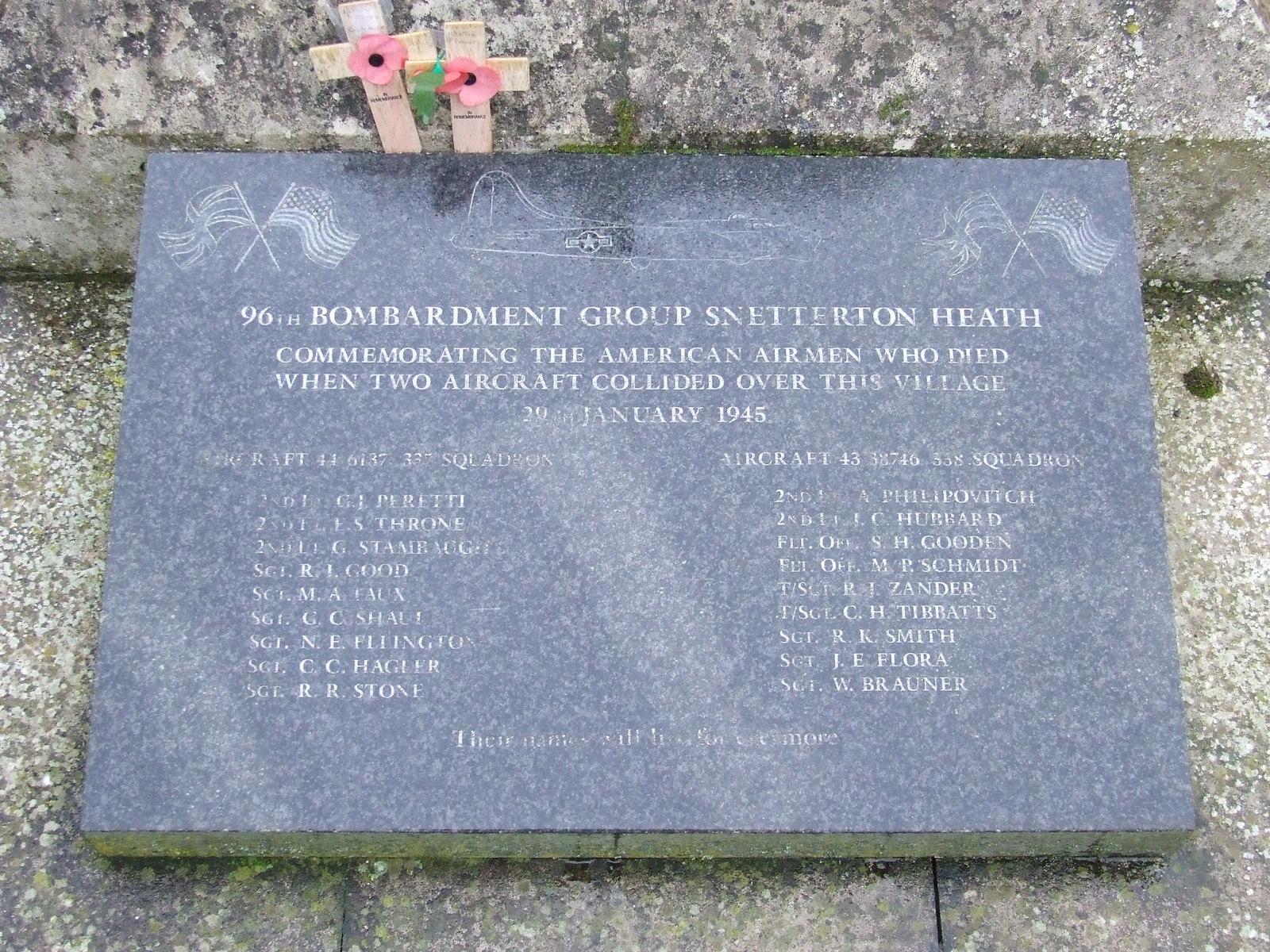 Memorial to Air Crash. Memorial for two U.S.A.A.F. aircraft that collied over North Lopham, Norfolk on the 29 January 1945 sited at the village war memorial see 1702051 and